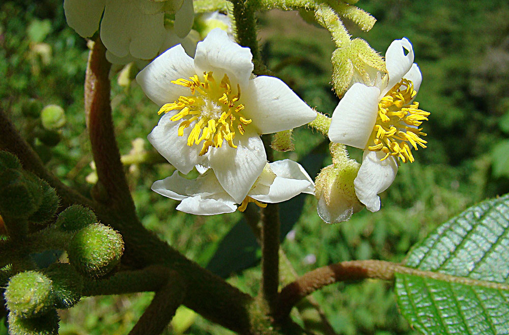 From the Bajo Mono area of western Panama. In context at